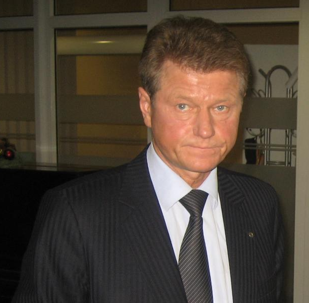 Presidential election of Lithuania, 2009-05-17. Valentinas Mazuronis and supporters waiting for results. Rolandas Paksas